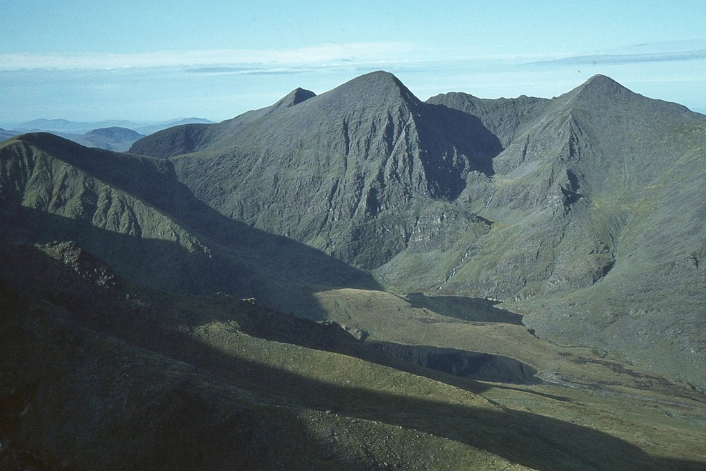 Looking into the Eagle's Nest, surrounded by Carrauntoohil, Beenkeragh, and the Hag's Tooth Ridge, as seen from Cruach Mhor, in the MacGillycuddy's Reeks range in County Kerry, Ireland